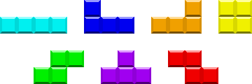 Tetrominoes in their Tetris Worlds colors (which are the standard for Tetris since 2001), with beveled edges. Top row: I, J, L, O. Bottom row: S, T, Z.